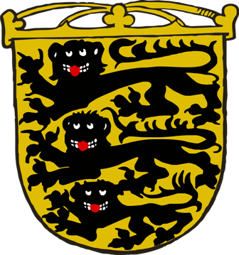 Arms of the Emperor of Bulgaria,(Der kaiser von Bulgaryen) Armorial by Conrad Grünenberg, Constance Codex, 1483. NOTE: This Coat of Arms was documented for the first time several decades after the fall of the Second Bulgarian Empire under the rule of the Ottoman Empire and is known from a German roll of arms. Its use in Bulgaria during the reign of Tsar Ivan Shishman (1371-1395) and within Second Bulgarian Empire in general is not documented.